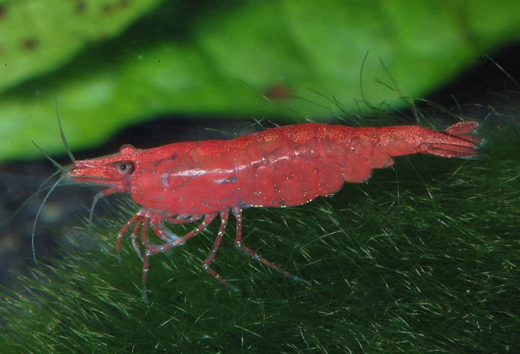 Neocaridina heteropoda var. sakura is a special selected breeding.